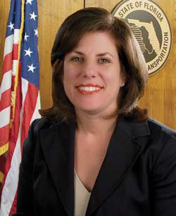 Official photograph of Stephanie Kopelousos, Secretary of Transportation for the Florida Department of Transportation 2007-2010